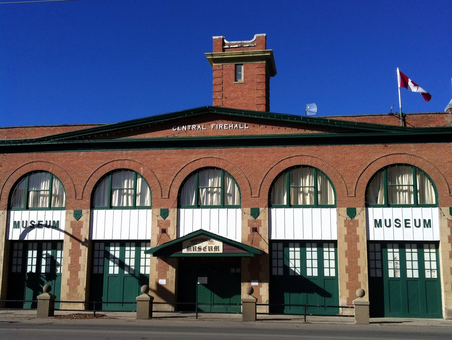 Prince Albert and District is rich in recreation and leisure opportunities. Our abundant city parks include Prime Ministers Park, Pehonan Parkway, and the beautiful 1500 lakes that make up Prince Albert National Park. During the winter months, the City of Prince Albert and District come alive with fun-filled activities for the entire family! Cross-country skiing, snowboarding, snowshoeing, and winter hiking are some of the activities you can experience when you visit Little Red River Park, Prince Albert's playground areas, or any of our Lakeland areas. Fall and winter give way to spring and summer.... Prince Albert's farmers market, downtown street fair, retail shopping, exhibitions, rodeos, and the best golfing around - we have it all! With endless adventure possibilities within an hour from Prince Albert, there isn't another City and District like us!